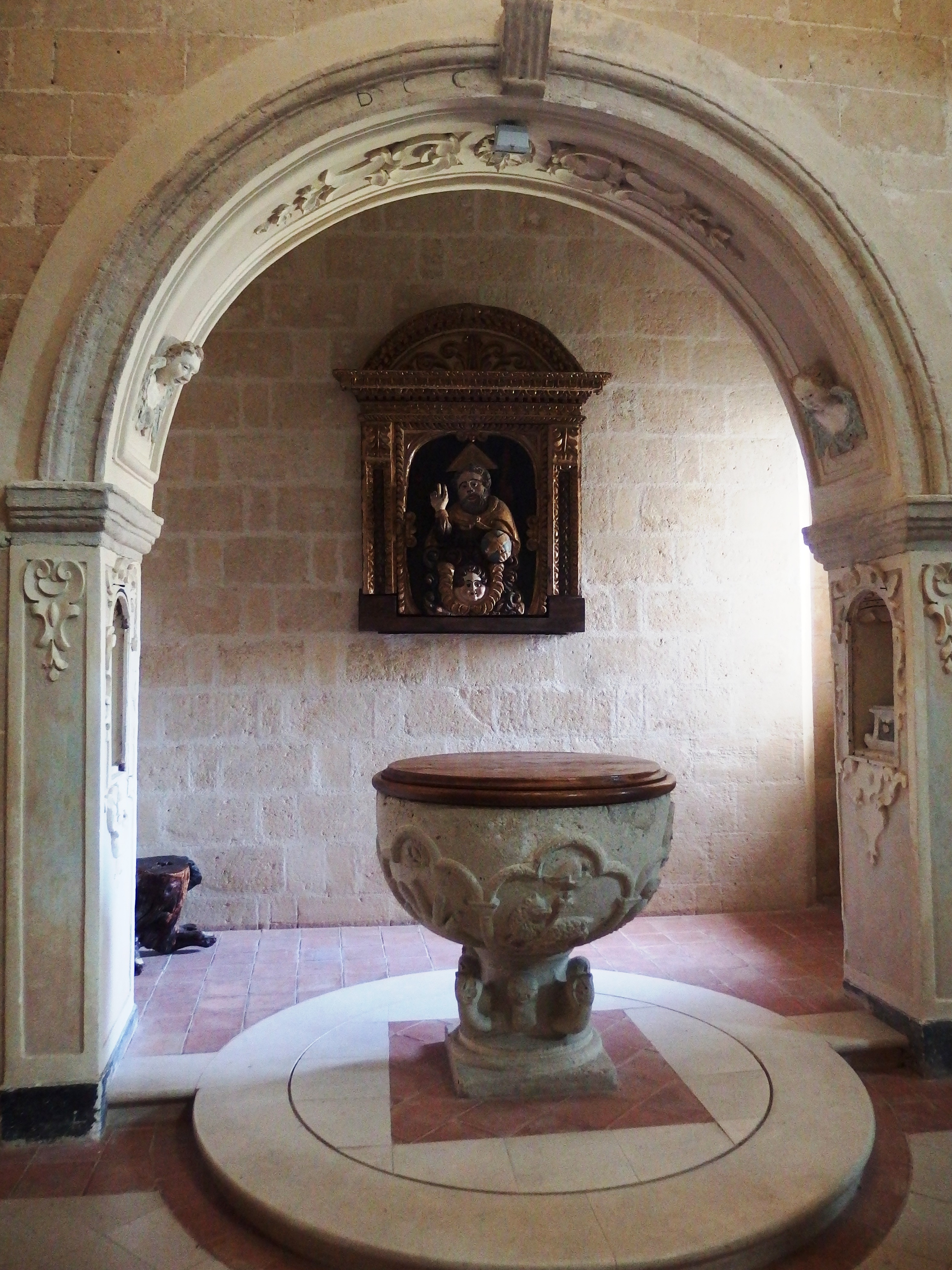 Matera, Basilicata, Italy.